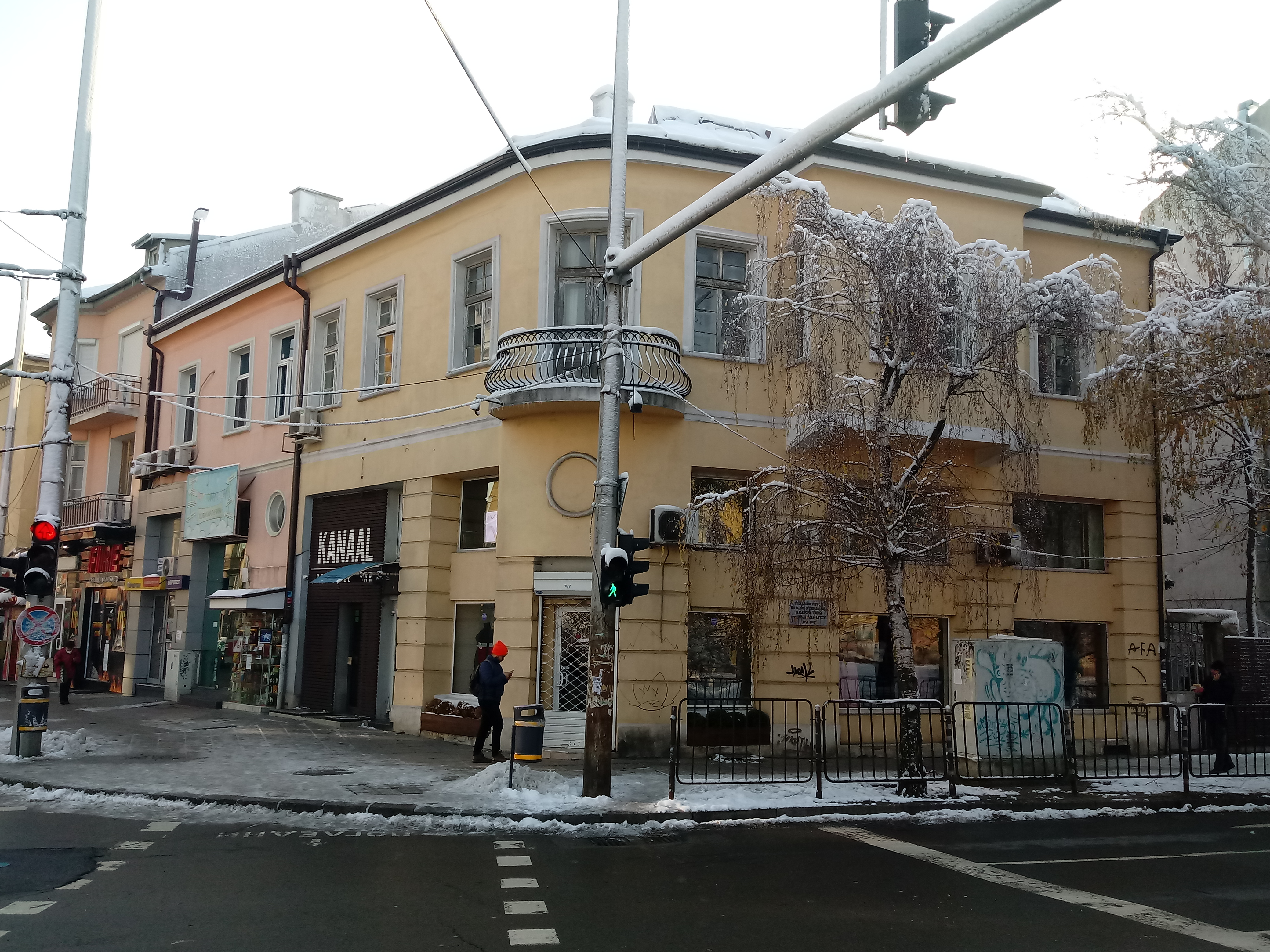 Ivan-Asen Petkov home with memorial plaque, corner of Evlogi i Hristo Georgievi Blvd. and Madrid Blvd., Sofia